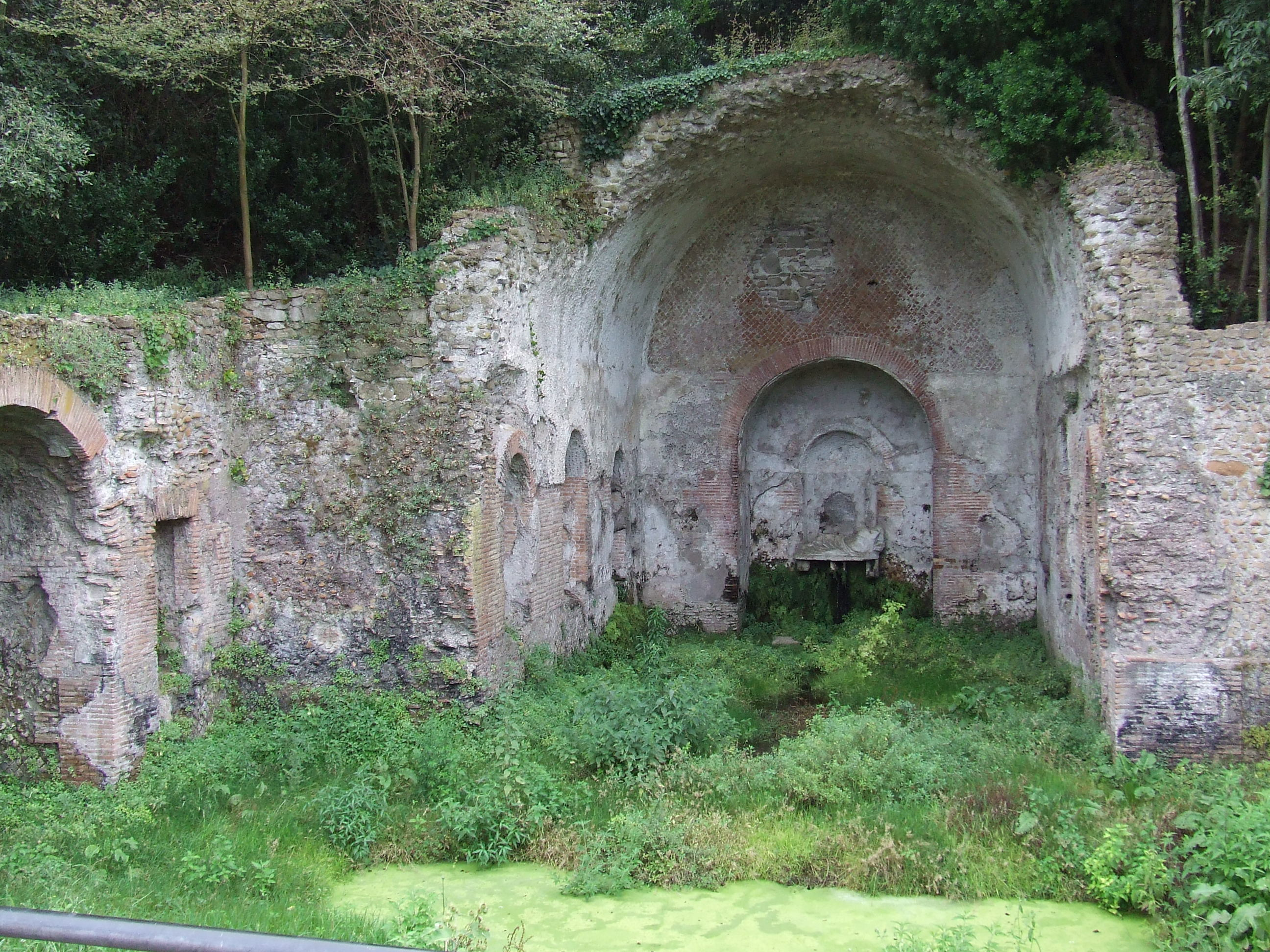 · · · · mAppiaM! Mapping the via Appia Antica, Rome, for Wikipedia, OpenStreetMap, WikiData and Wikimedia Commons